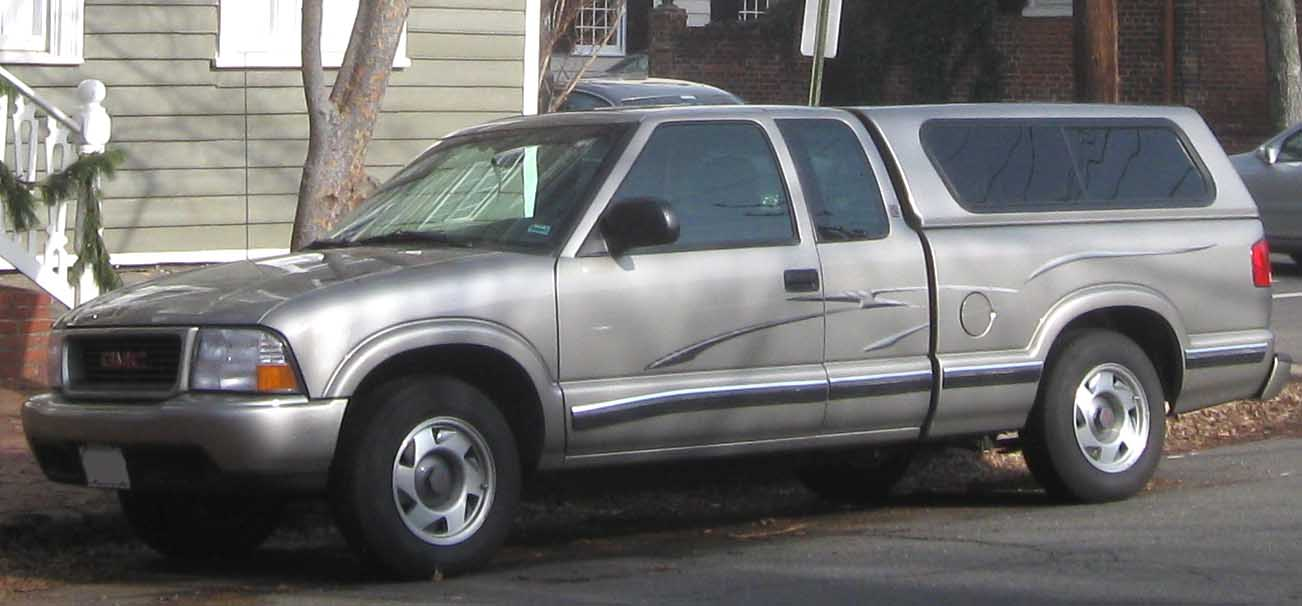 1998-2005 GMC Sonoma photographed in Alexandria, Virginia, USA.